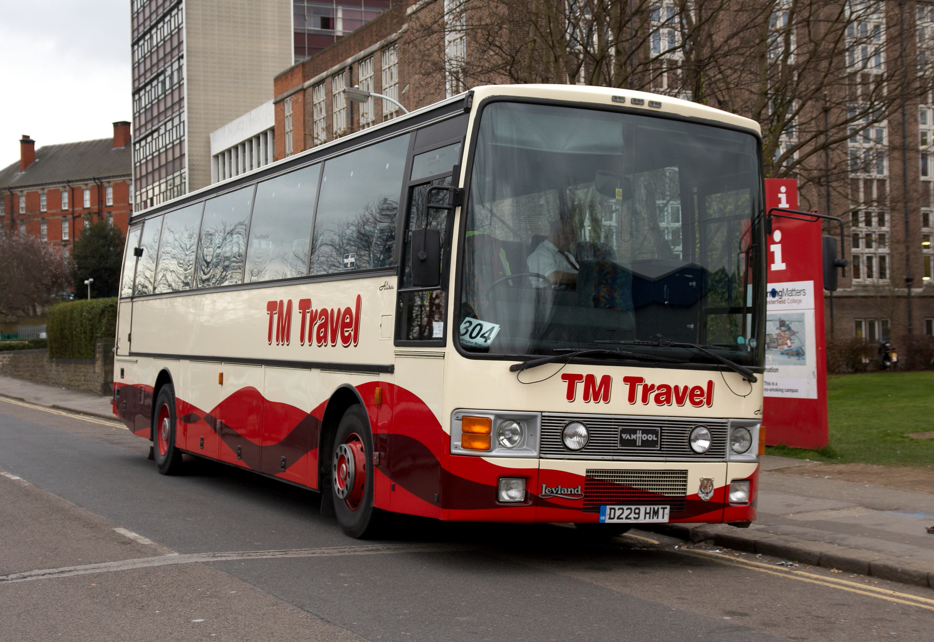 Van Hool Alizée (D229 HMT) with Leyland Tiger chassis in Chesterfield, UK. Operated by TM Travel.